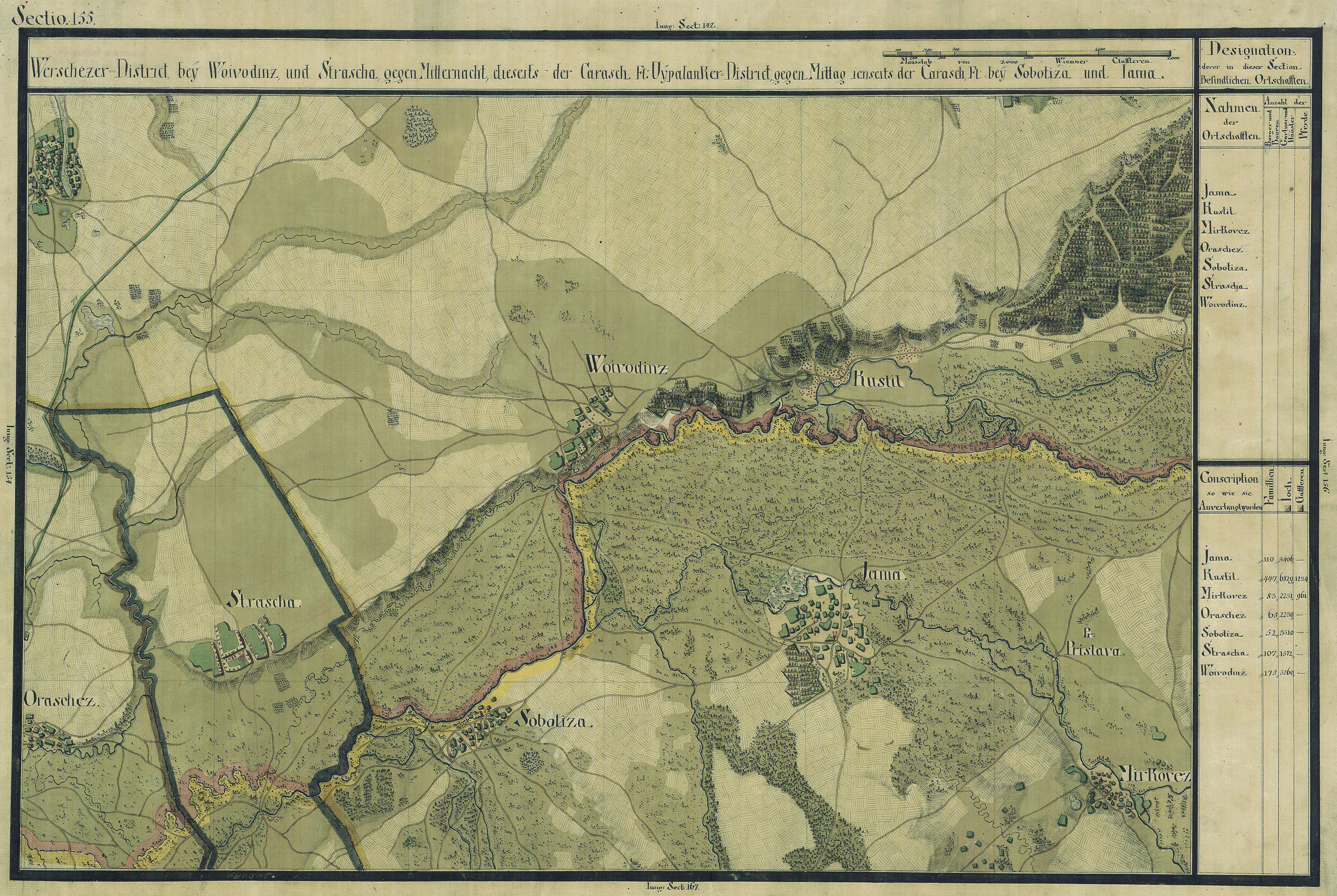 The Banat region in the cadastral maps: Josephinische Landesaufnahme, 1769-72. Josephinische Landaufnahme pg155